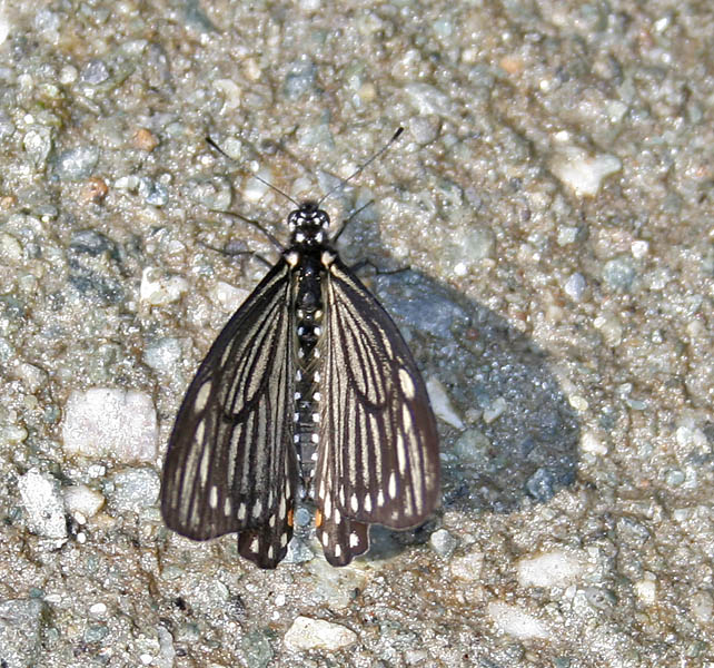 Lesser Mime Chilasa epycides at Samsing in Darjeeling district of West Bengal, India.